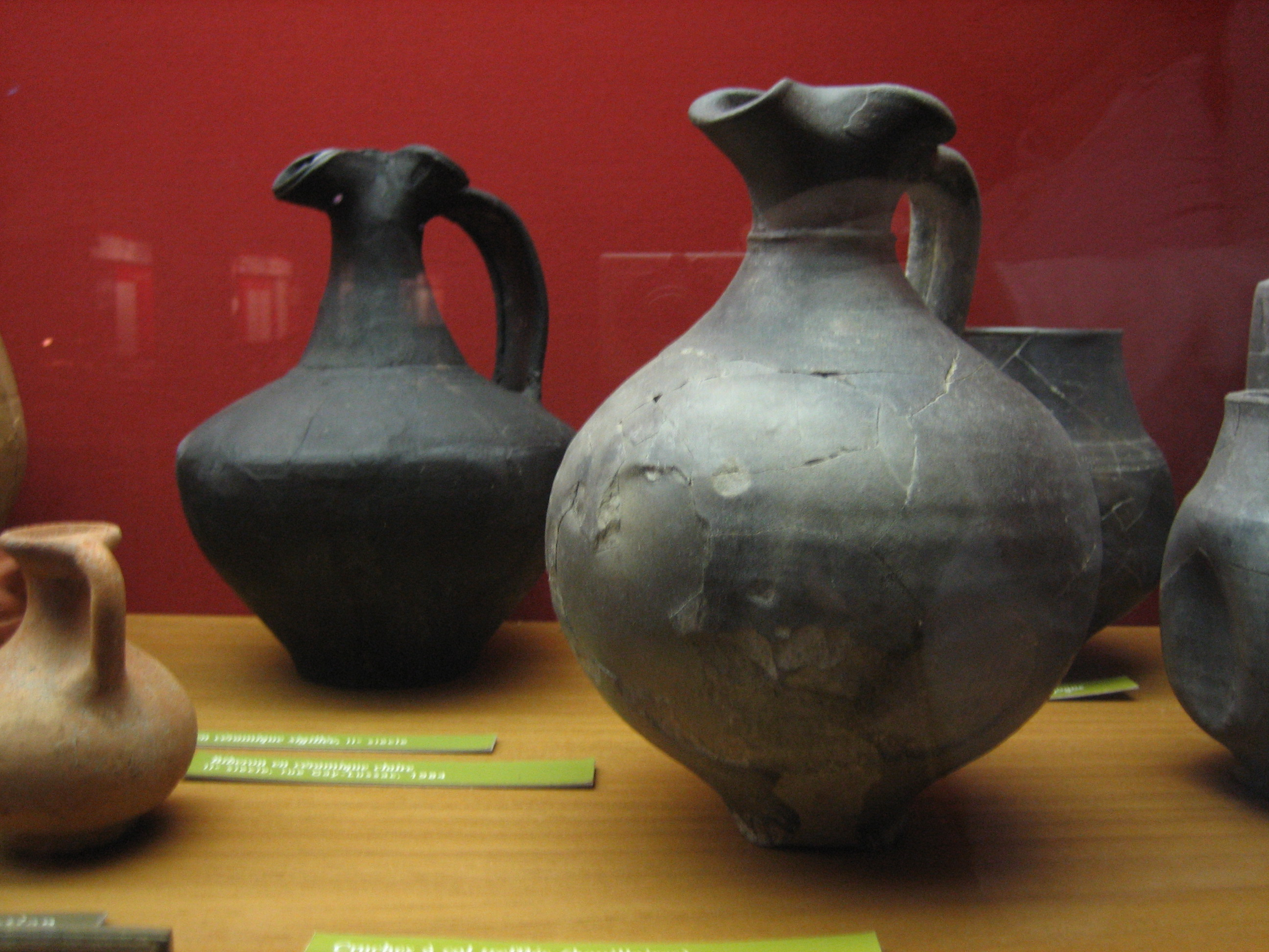 Ancient Roman pottery in Paris.